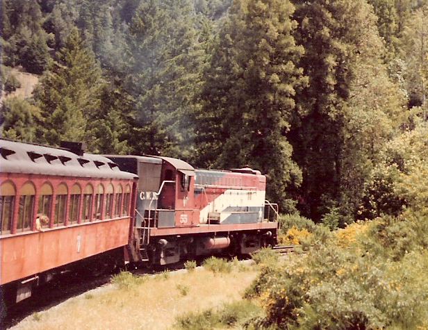 California Western Railroad passenger train pulled by Baldwin RS-12 locomotive number 55 wearing bicentennial paint scheme